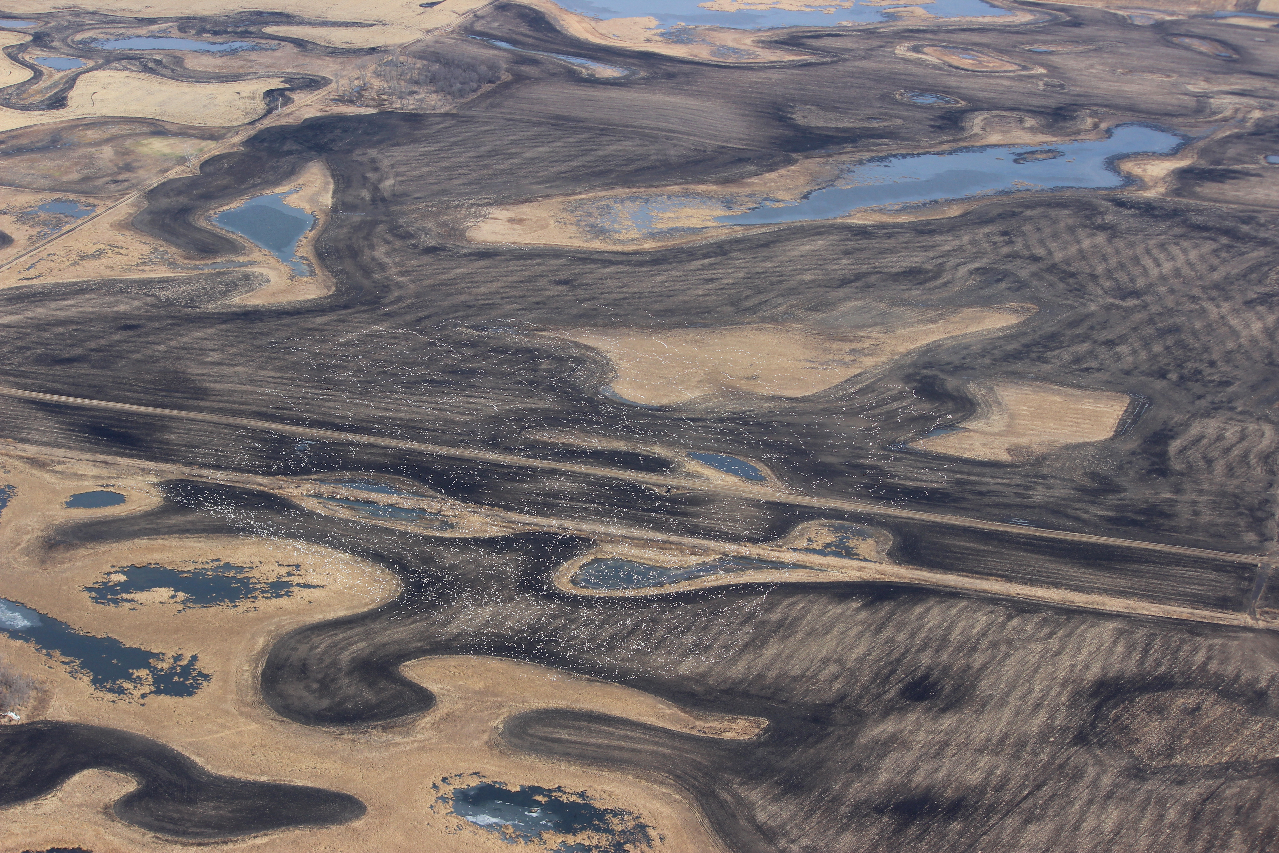 The white dots are a flock of snow geese as they fly over a portion of the prairie pothole region of North Dakota. Photo Credit: Krista Lundgren/USFWS